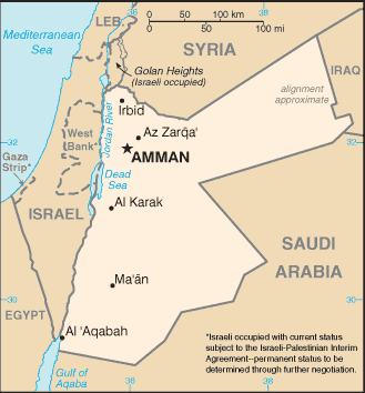 Map of Jordan for use on Wikisource.